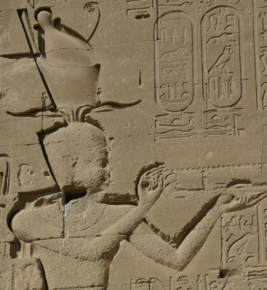 Temple of Denderah. Detail of the back wall. Cesarion, son of Cleopatra and Cesar Image taken by Alex Lbh in April 2005